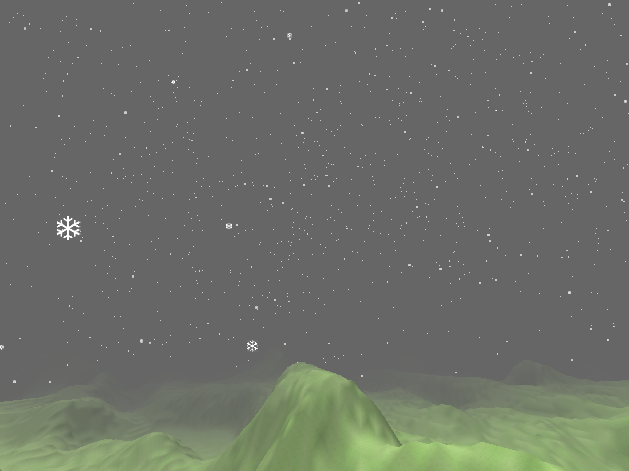 a Paticles System